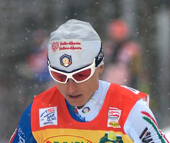 Arianna Follis at the Tour de Ski 2010 in Oberhof